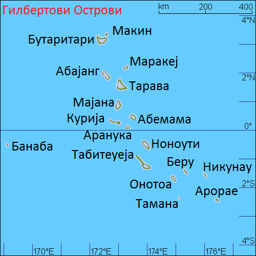 Map in Macedonian of the Gilbert islands, Kiribati, own work composed from various map references.